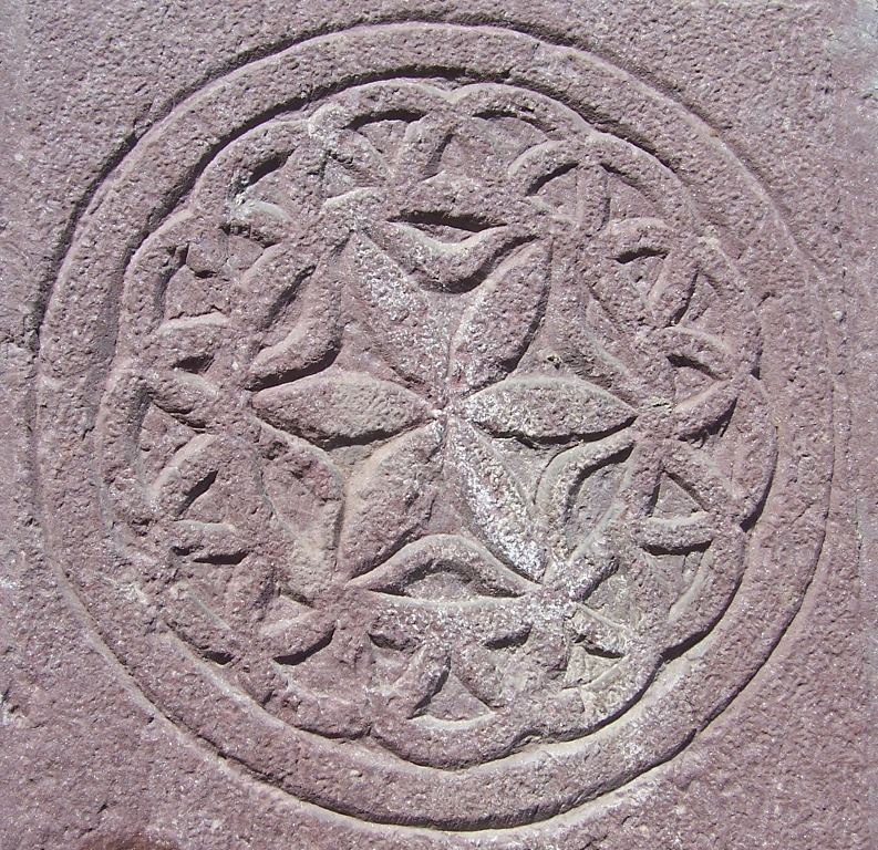 "Sun of the Alps" (drawn similar to the central rosette of the "Flower of Life") on a portal of an ancient Federici's house. Erbanno, Val Camonica, Italy.